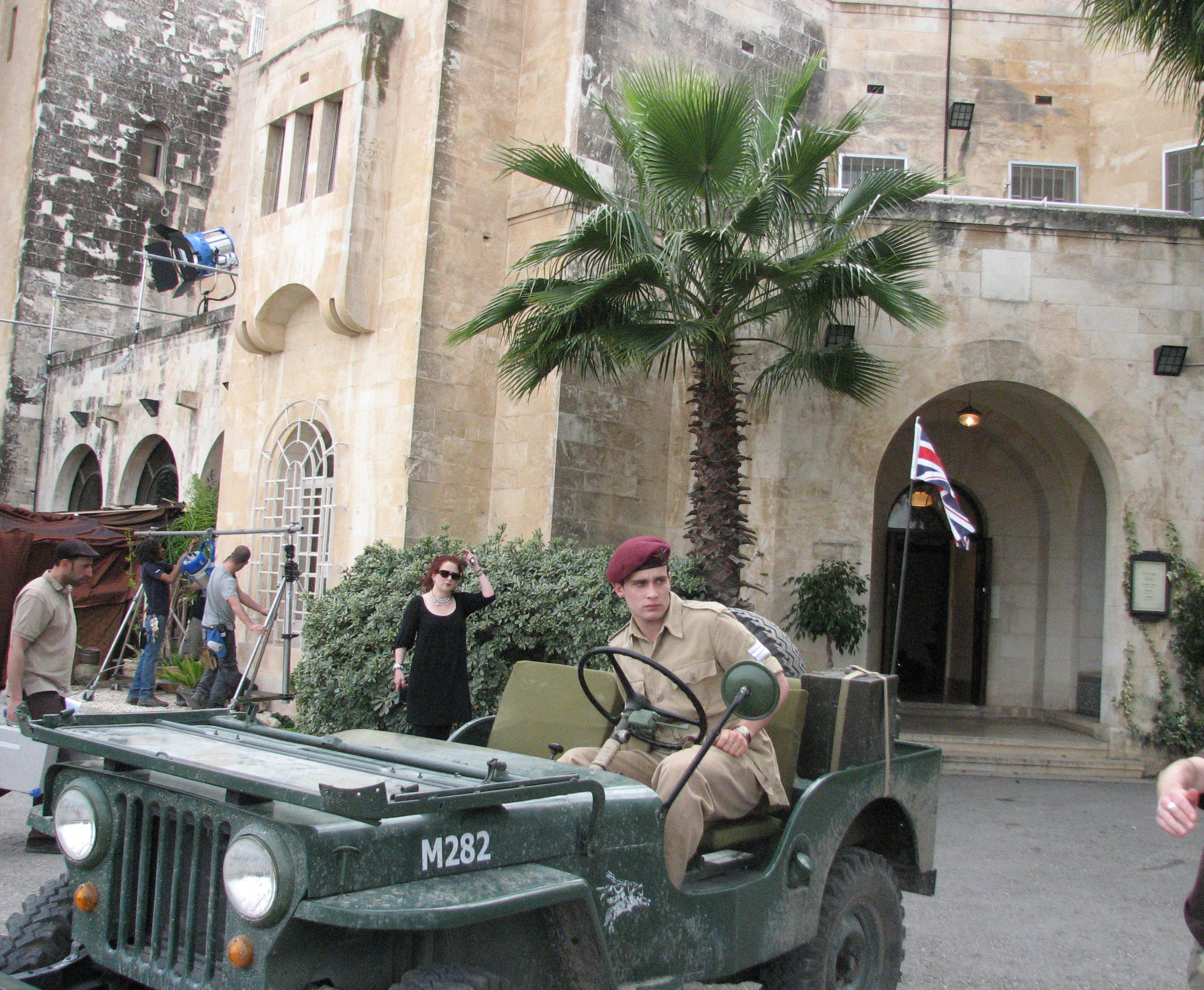 A pensive soldier and a revisited dusty patrol car from Her Majesty's supply for the imperial presence in Palestine, here in front of the Scottish Church in Jerusalem, in-between ongoing shooting for a reenactment-style TV drama by Peter Kosminsky, set in various locations across Israel in 2010.